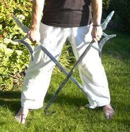 Two steel Hook Swords.